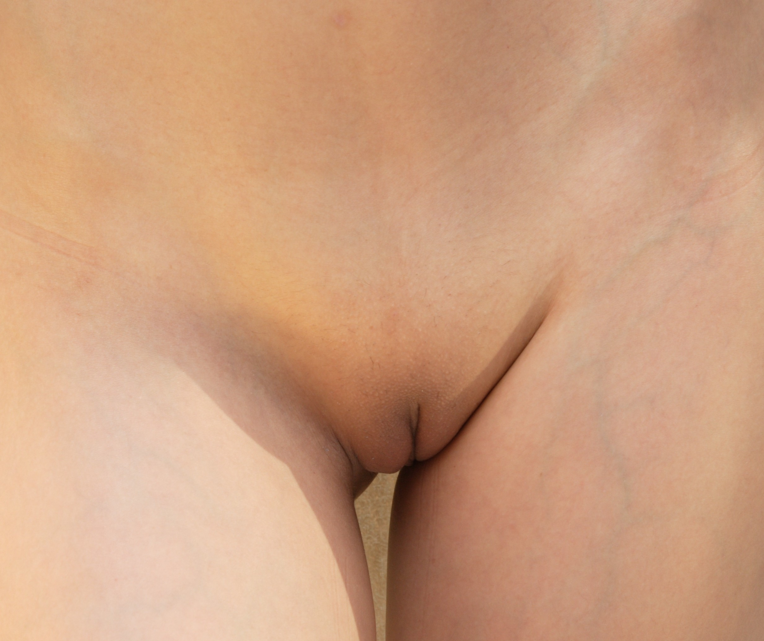 Photo by Peter Klashorst from